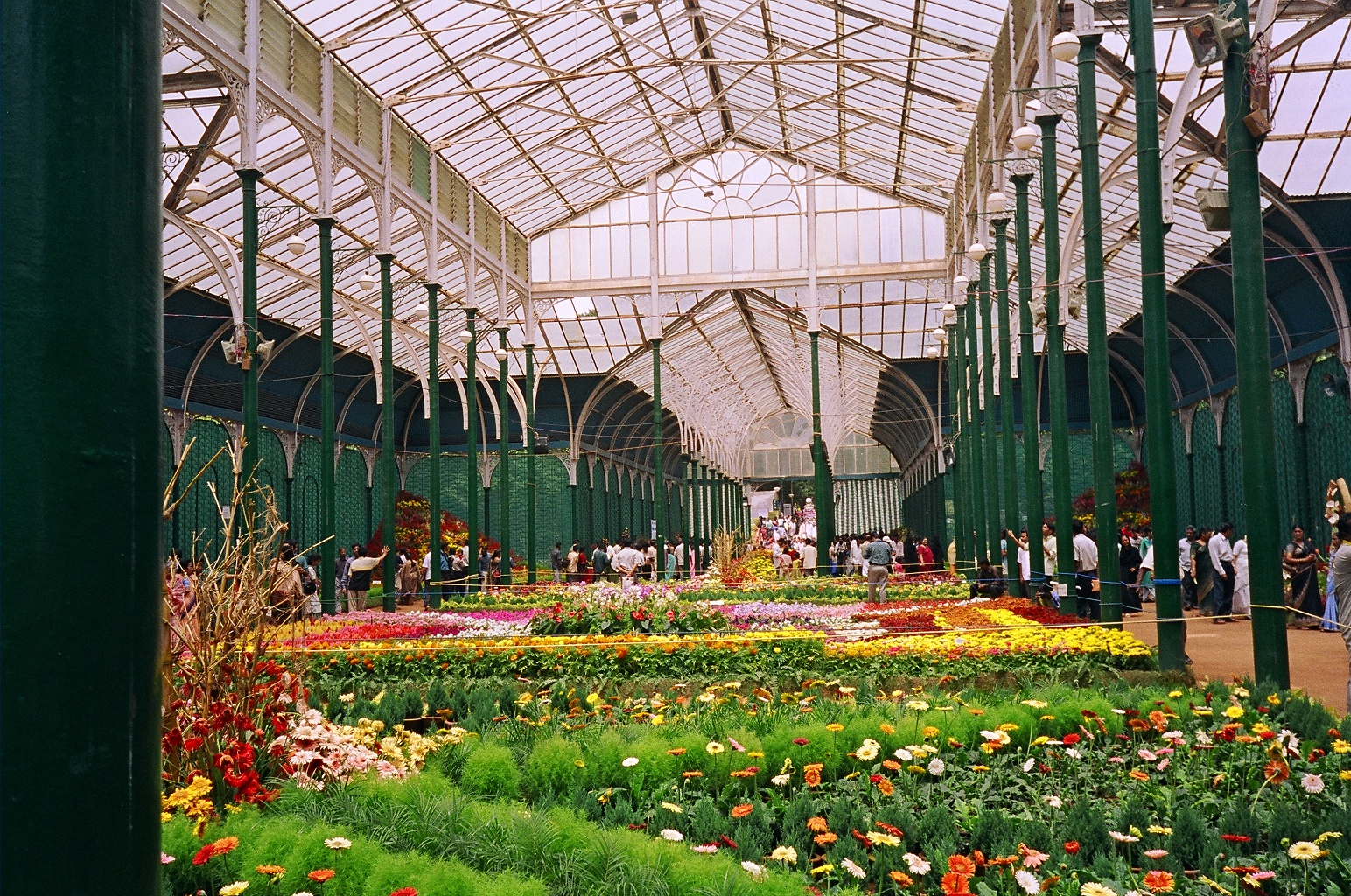 The Glass House of Lal Bagh, Bangalore. Taken by myself, Aug. 2003 --BostonMA 16:09, 15 January 2006 (UTC)